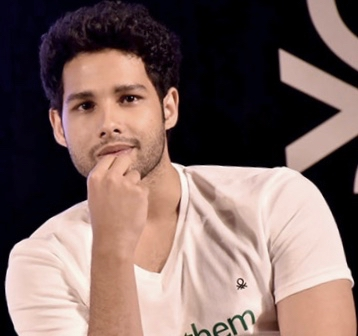 Siddhant Chaturvedi in 2019